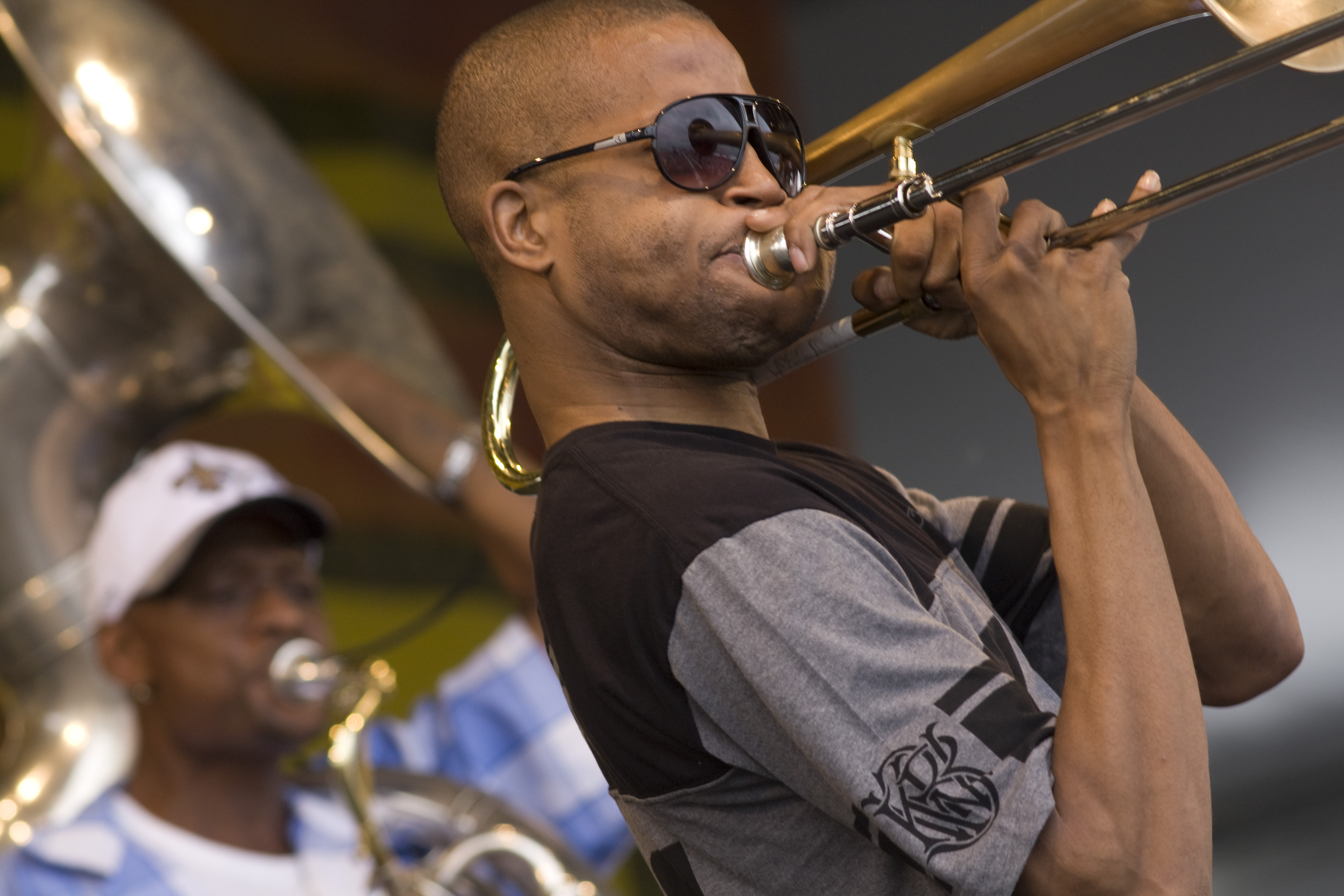 Troy 'Trombone Shorty' Andrews playing with Glen David Andrews, Julius McKee and Amanda Shaw, JazzFest, New Orleans.